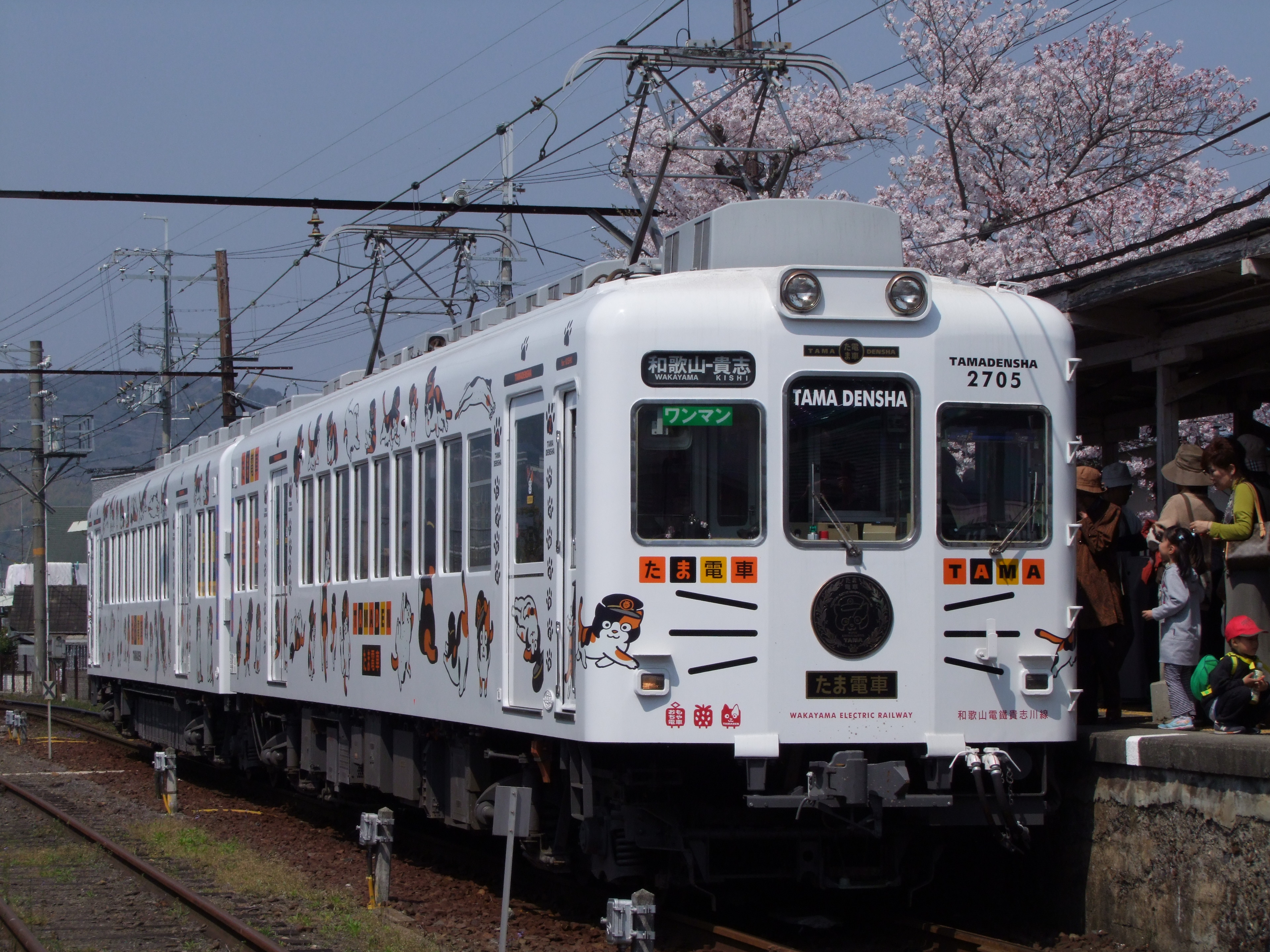 Wakayama Electric Railway (Wakayama Dentetsu)'s electric car (EMU) type 2270 (Kuha 2705 - Moha 2275) "Tama Densha" (Painted with Illustration painting of Station Master Tama), Kishi Station.